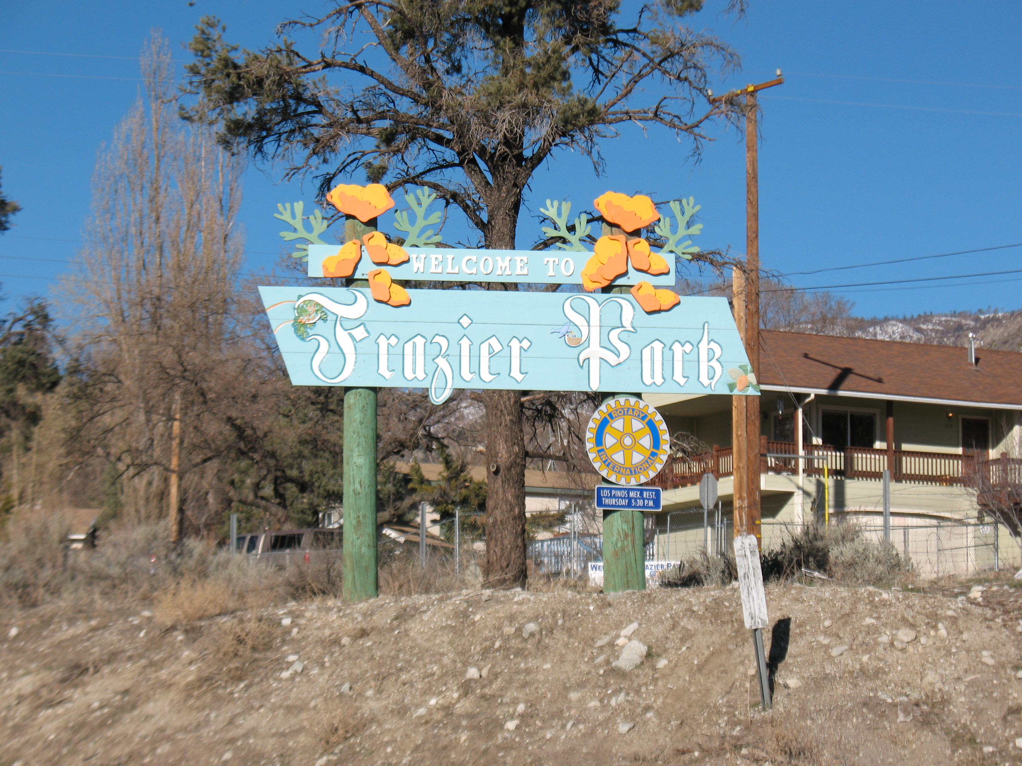 The entrance to the town